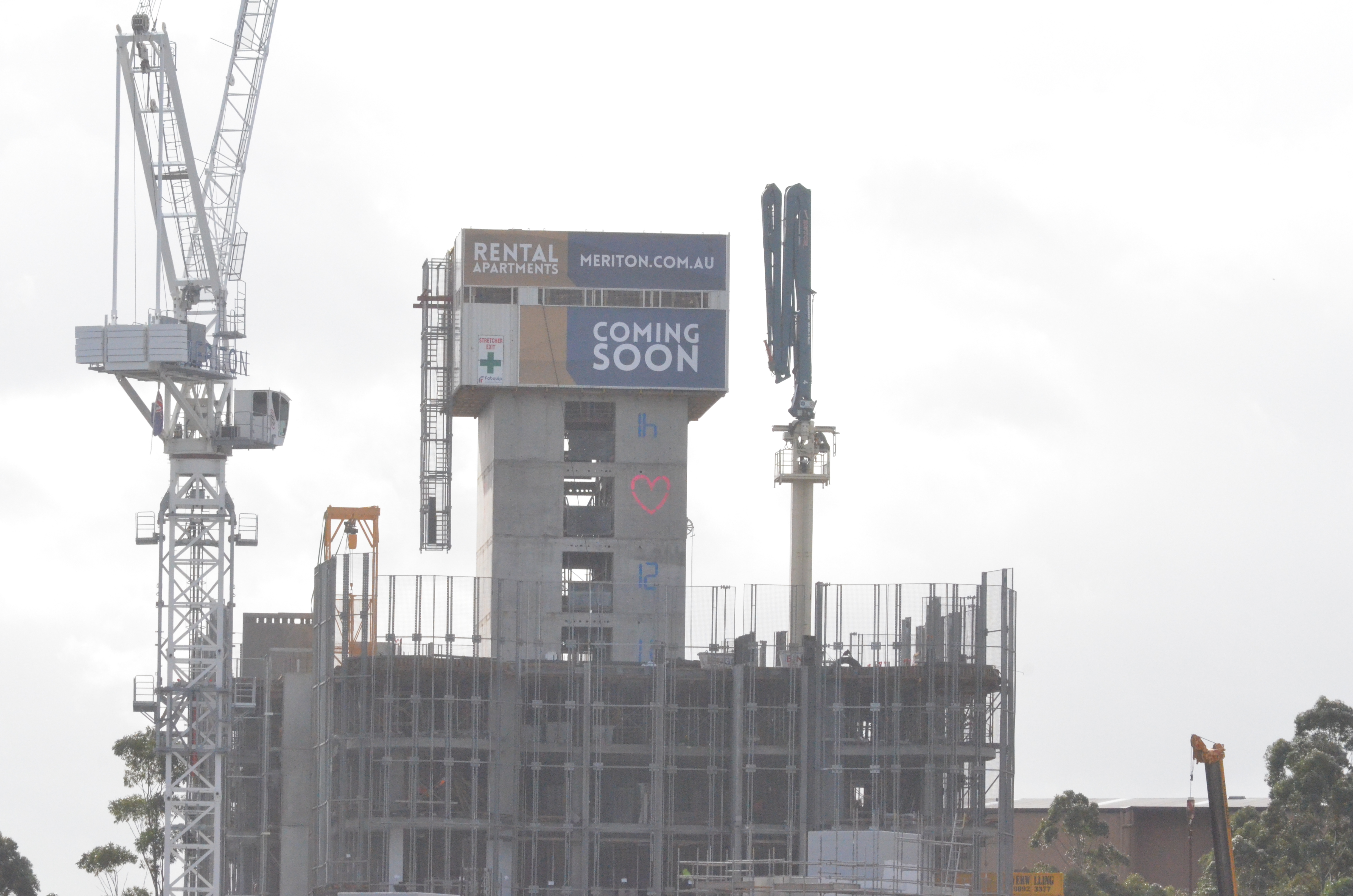 Closeup of the exposed lift shaft of an under-construction block of apartments in Lane Cove West, New South Wales. Markings for the 13th floor have been replaced by a heart, and the 4 in the markings for the 14th floor has been painted upside down.